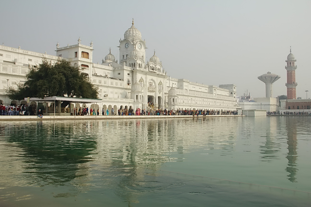 The Harmandir Sahib Left Dwar, Golden Temple Complex, Amritsar, Punjab, India